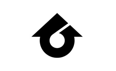 Flag of Higashiura Aichi